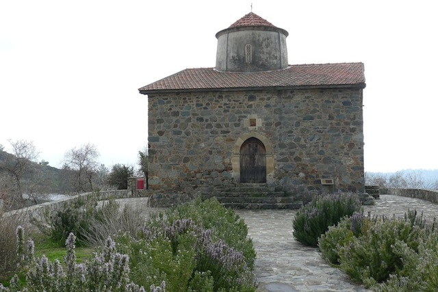 Holy Cross church at Pelendri.